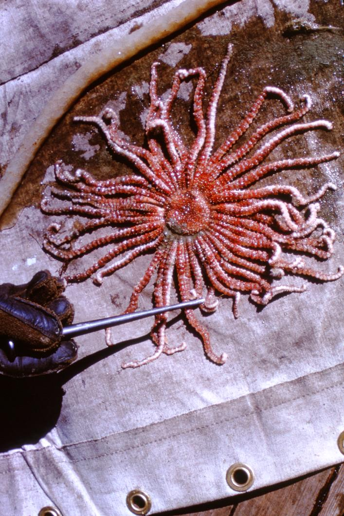 Local number: SIA2012-0664 Summary: SIA RU007231, Box 140, Folder. Labidiaster annulatus taken during Waldo Schmitt's collecting during the Palmer Peninsula Survey 1962-1963. Repository: Smithsonian Institution Archives View more collections from the Smithsonian Institution.